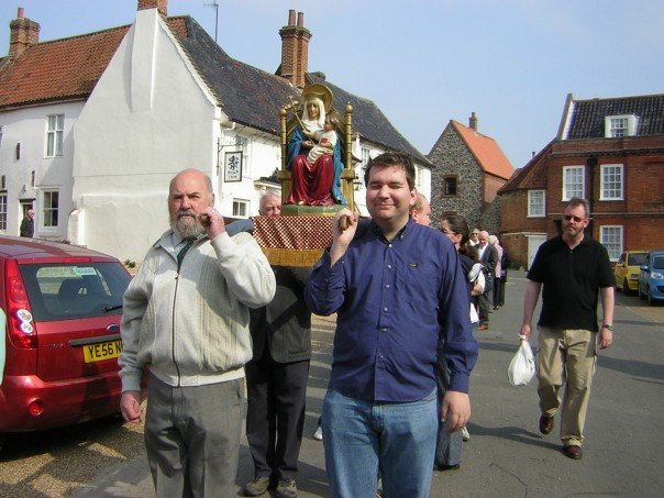 (c) Matt-rex